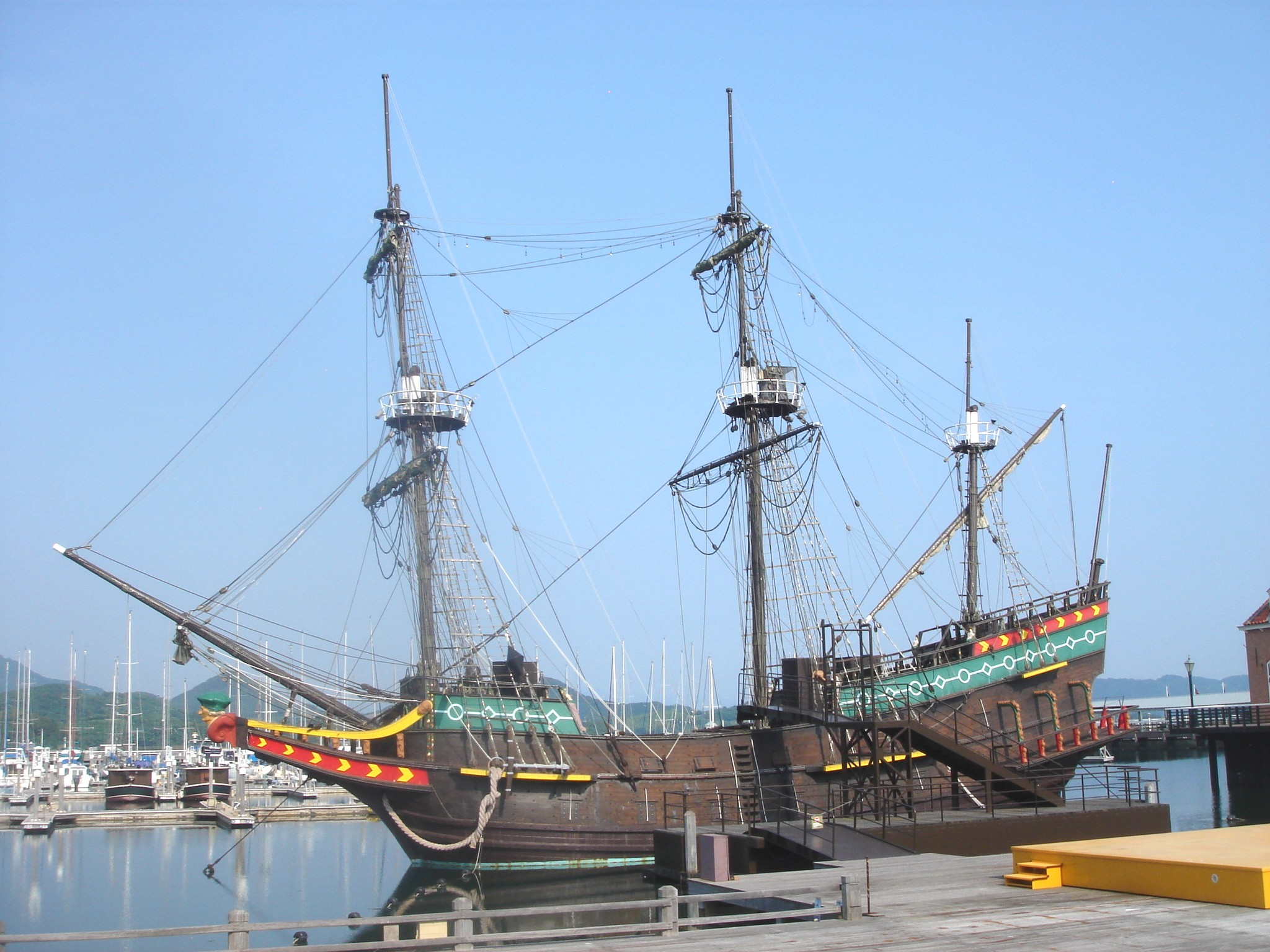 Replica of the galleon "De Liefde" at theme park Huis Ten Bosch in Nagasaki, Japan. It is not a ship by the VOC, but by the "Magelhaense Compagnie".